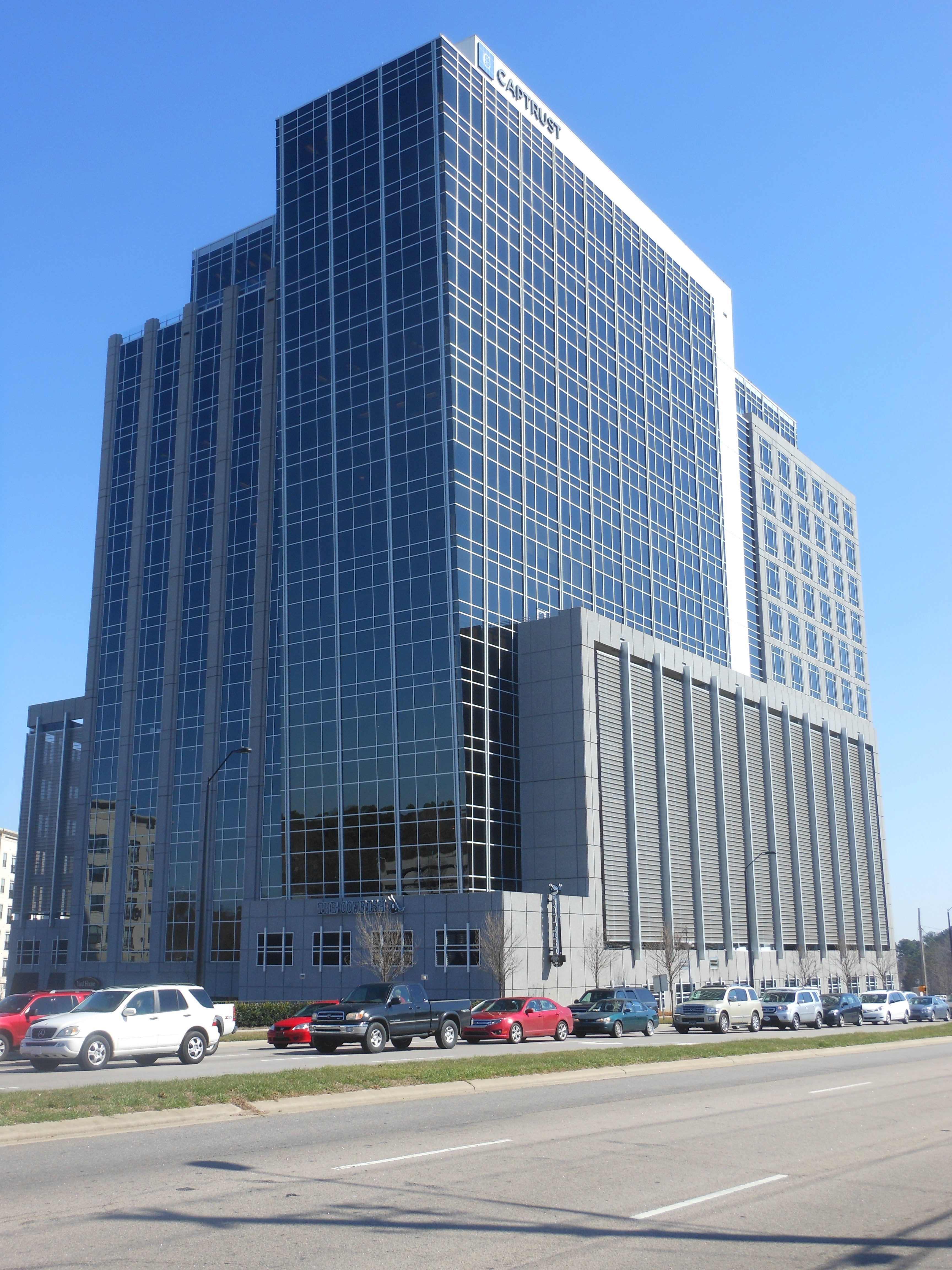 Captrust Tower in Midtown Raleigh, NC